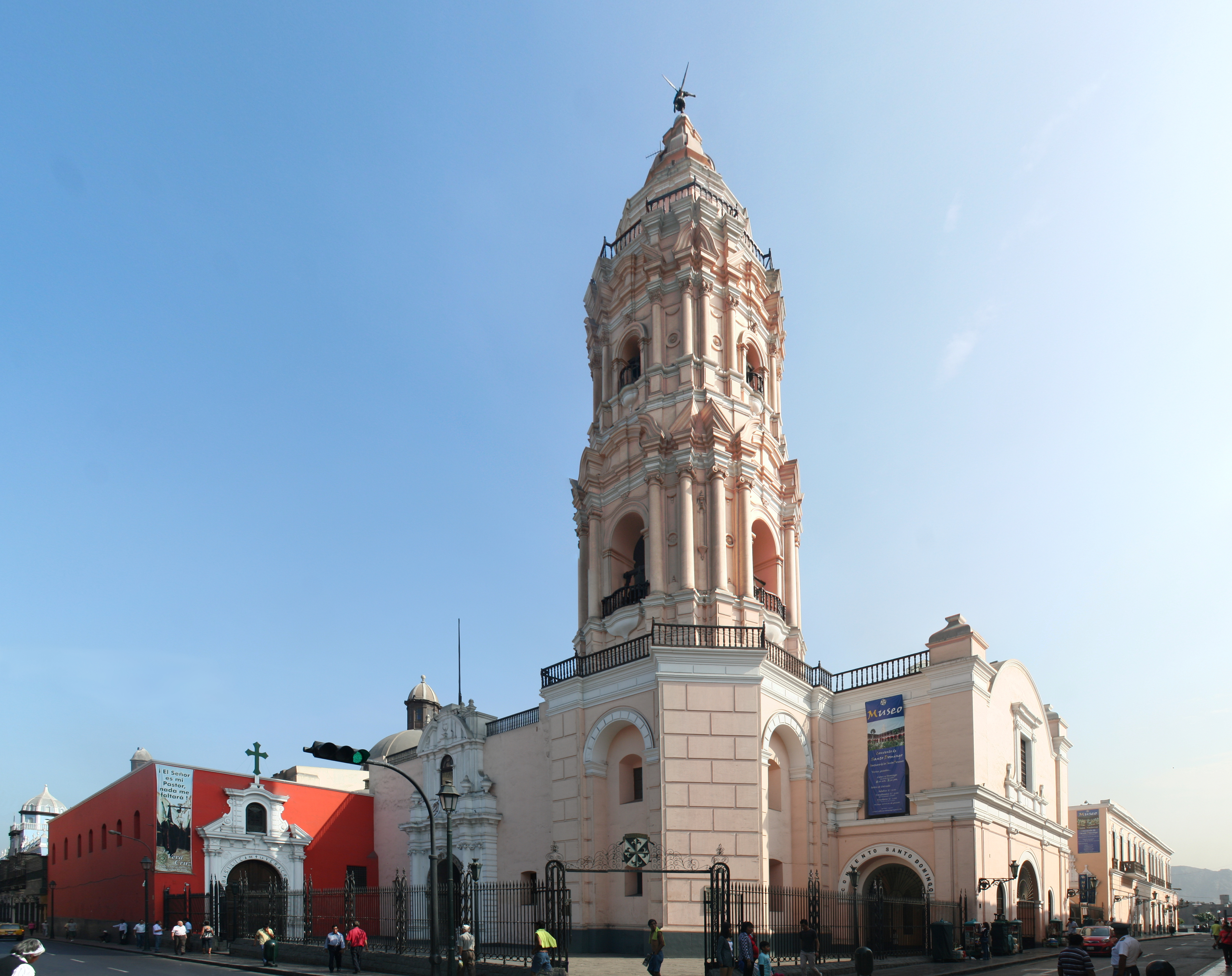 Convento Santo Domingo - Lima, Peru